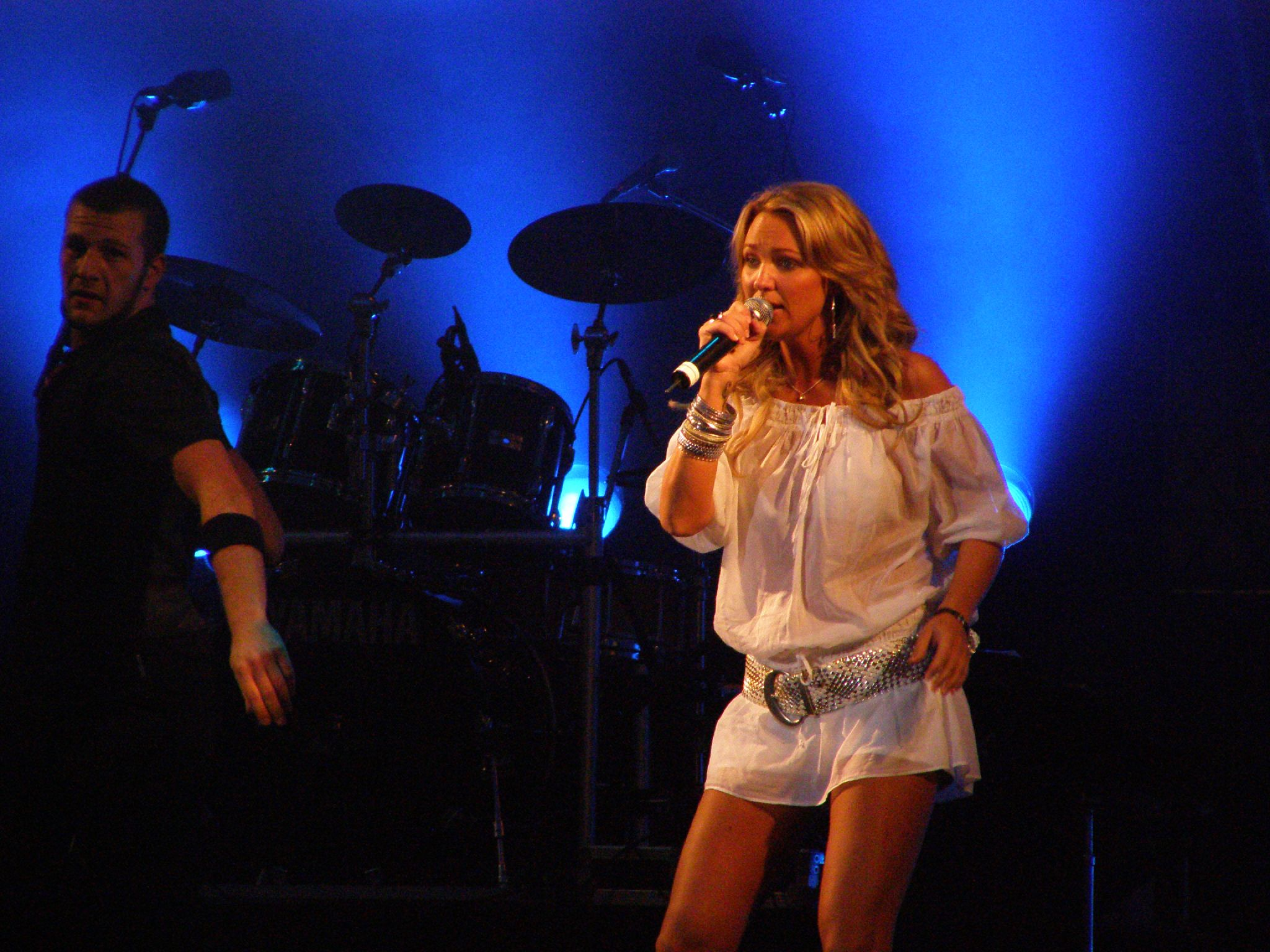 Kate Ryan at the opening ceremony of the EuroGames